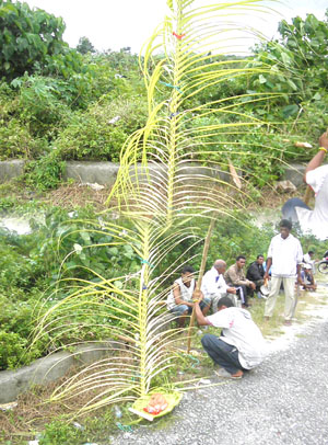 Sasi (Hawear) di kepulauan Kei